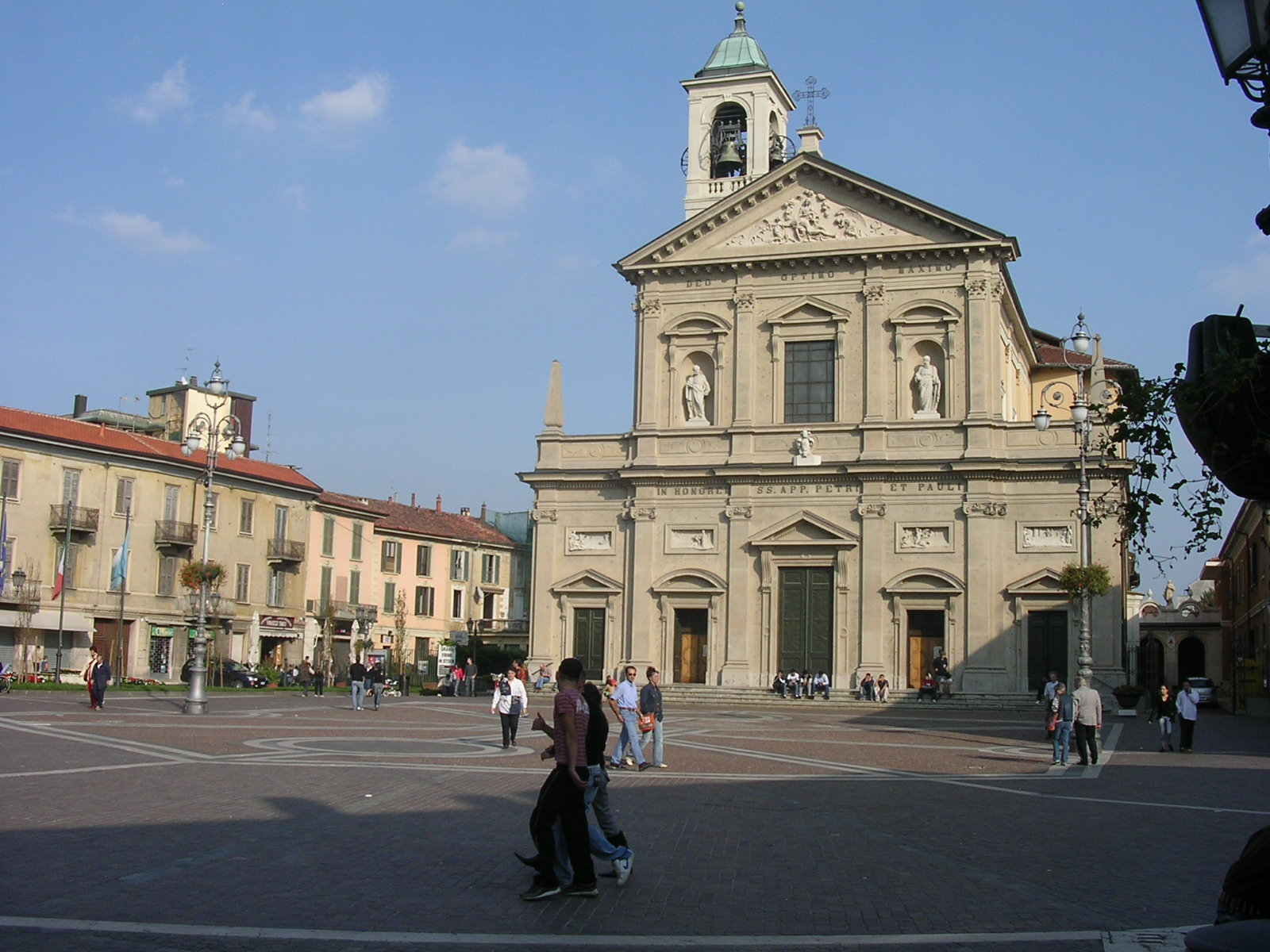 Central Place, Piazza di Libertà, in Saronno, Italy. Framed by the major church San Peter and Paul.